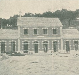 Coruche train station under construction, during the installation of the Vendas Novas Railway, in Portugal. This image was published on the Ilustração Portuguesa magazine No. 3, of the 23rd November 1903, scanned by the Hemeroteca Municipal de Lisboa.